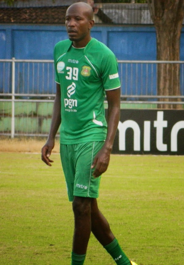 Ngon A Djam Latihan Persekap 2014